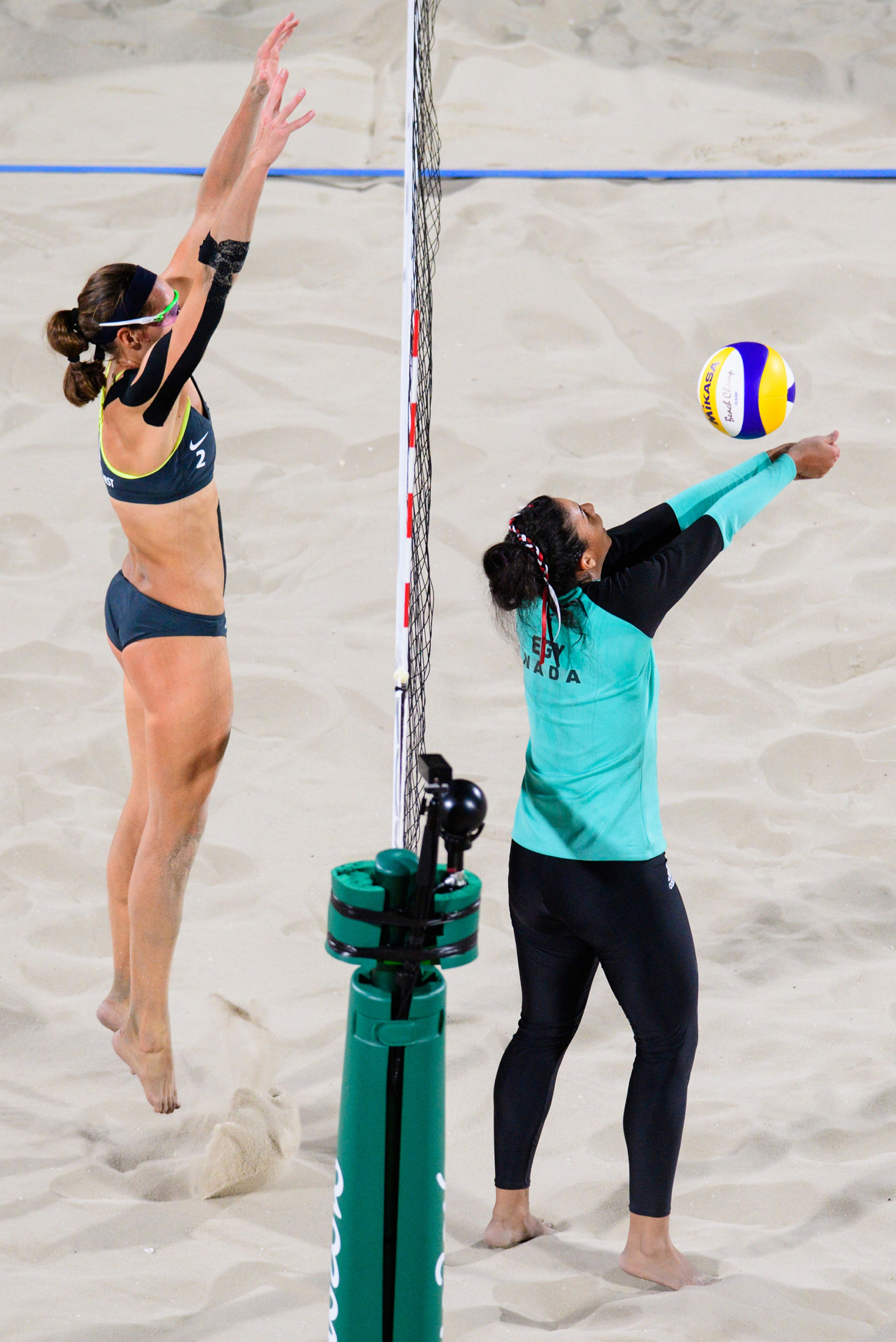 Rio Olympic Games 2016. Egypt´s Nada Meawad bumps against Germany